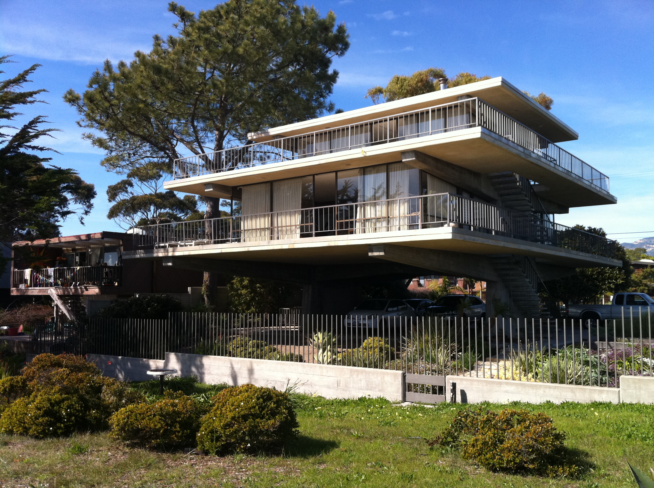 International style house at 6877 Del Playa in Isla Vista, California, facing the ocean. Designed by architect Richard Taylor, built in 1968, for UC Santa Barbara professors Beatrice Sweeney and Paul Lee. Originally posted on Flickr, also posted on LocalWiki.